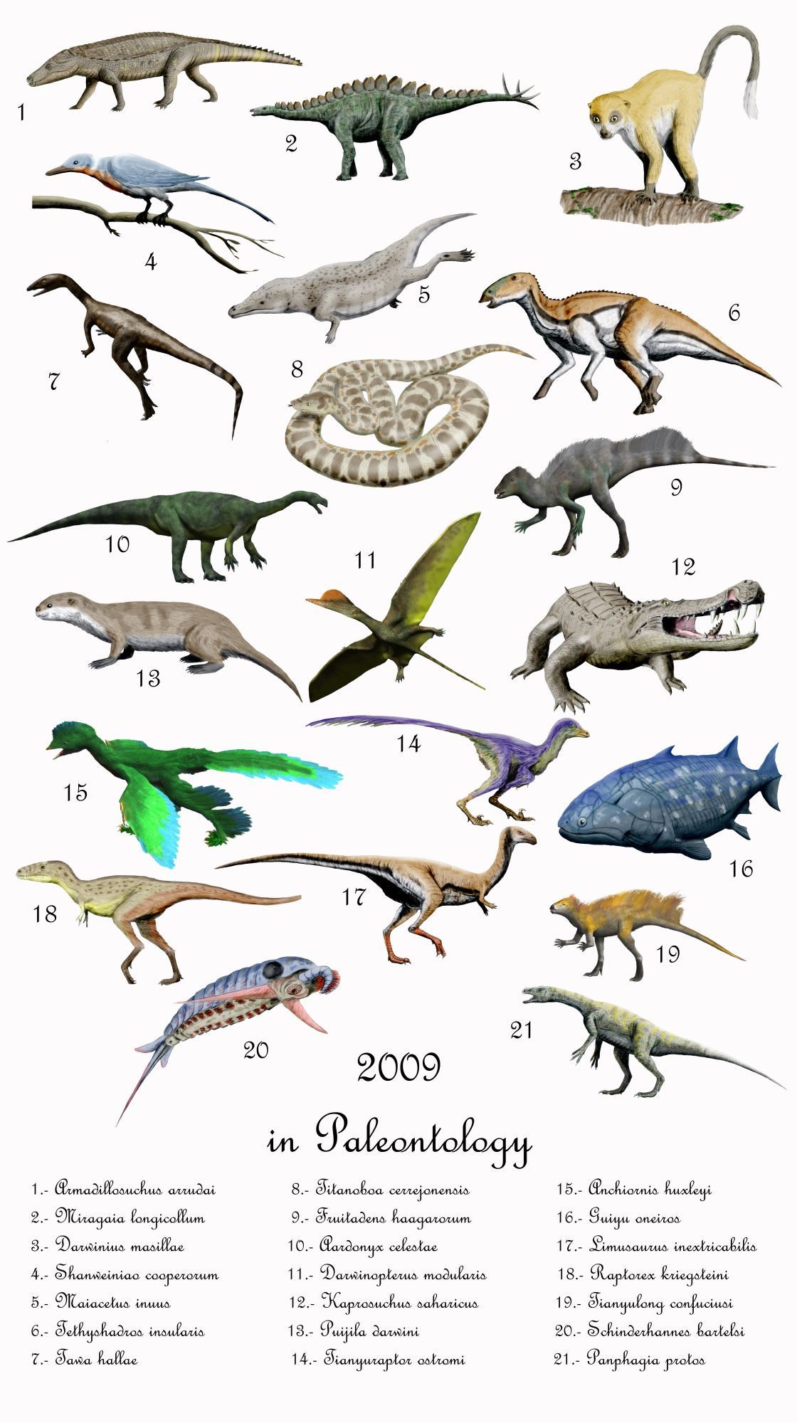 a selection of prehistoric species described in 2009